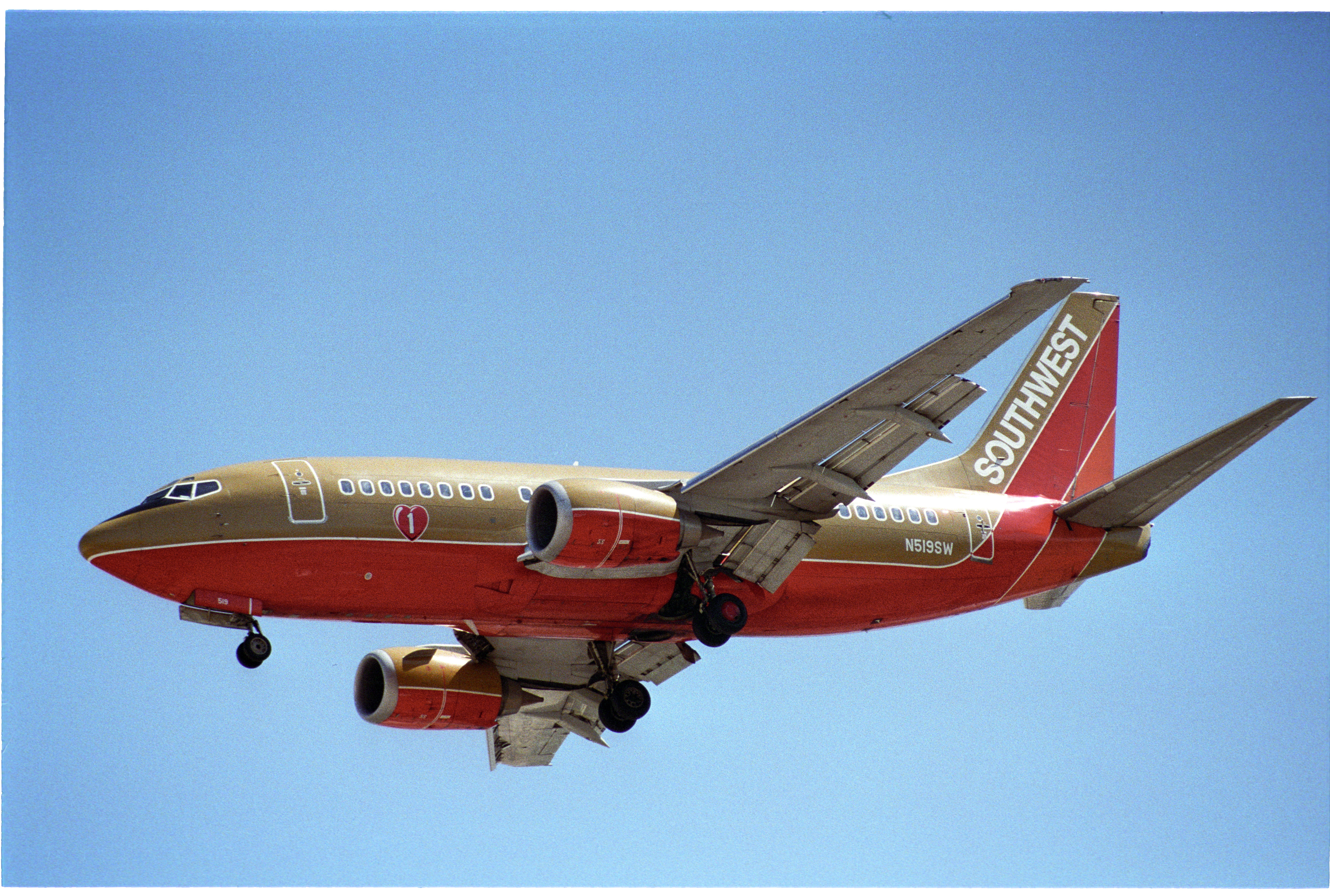 Southwest Airlines Boeing 737-500; N519SW@LAS;01.08.1995